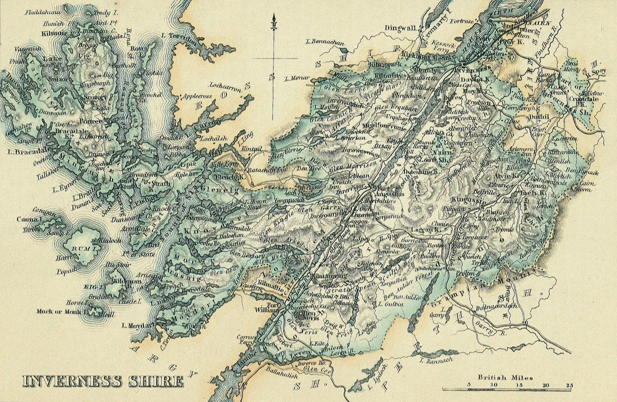 INVERNESS SHIRE map. The Imperial gazetteer of Scotland. Vol.II. by Rev. John Marius Wilson.